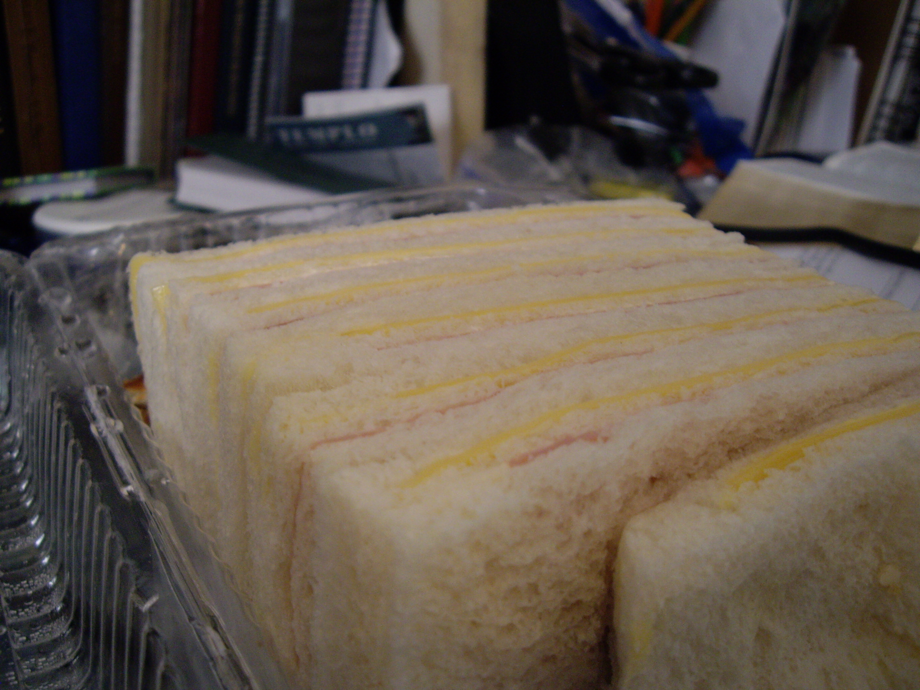 Ham, cheese, white bread, no crusts. It reminds me of something mom would make me when I was a kid!